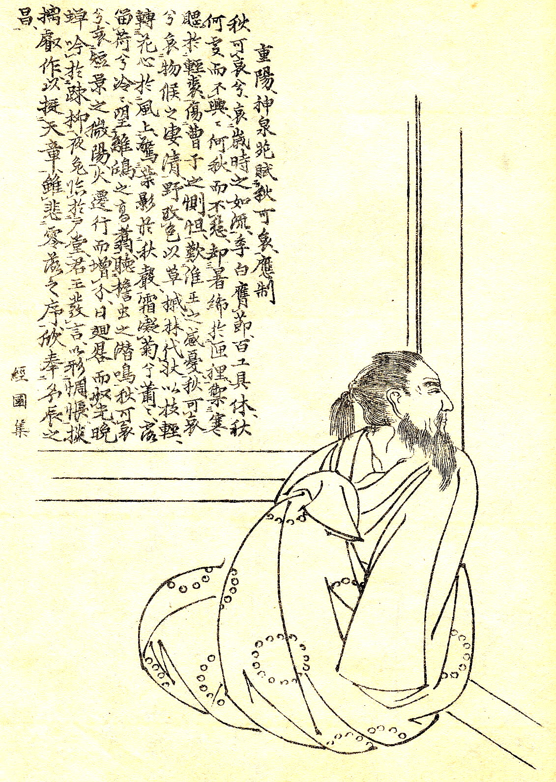 Wake no Matsuna(和気真綱) was a japanese court noble in Heian period. This picture was drawn by Kikuchi Yosai(菊池容斎).